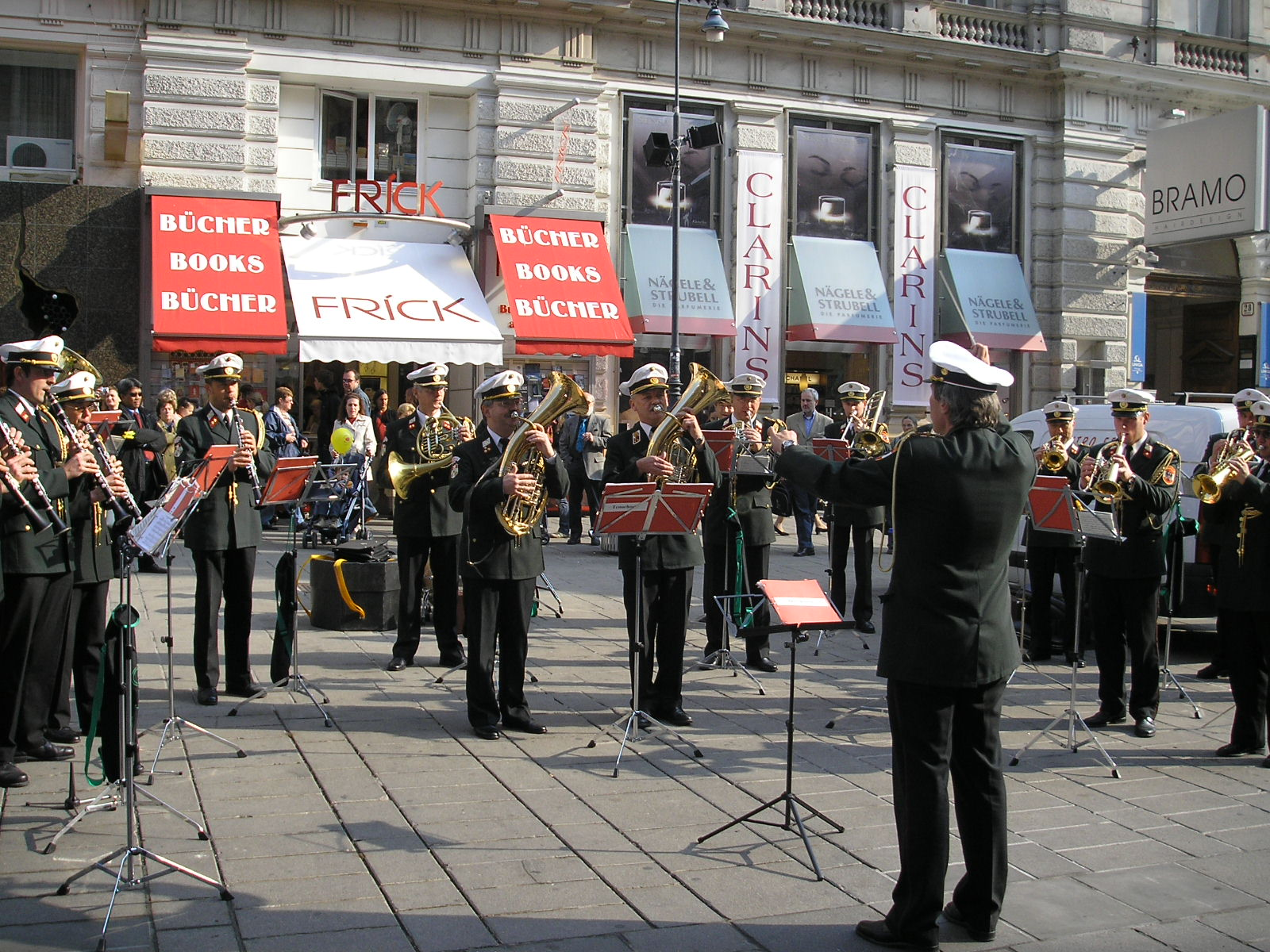 Image of a police band concert at the Graben street in Vienna.